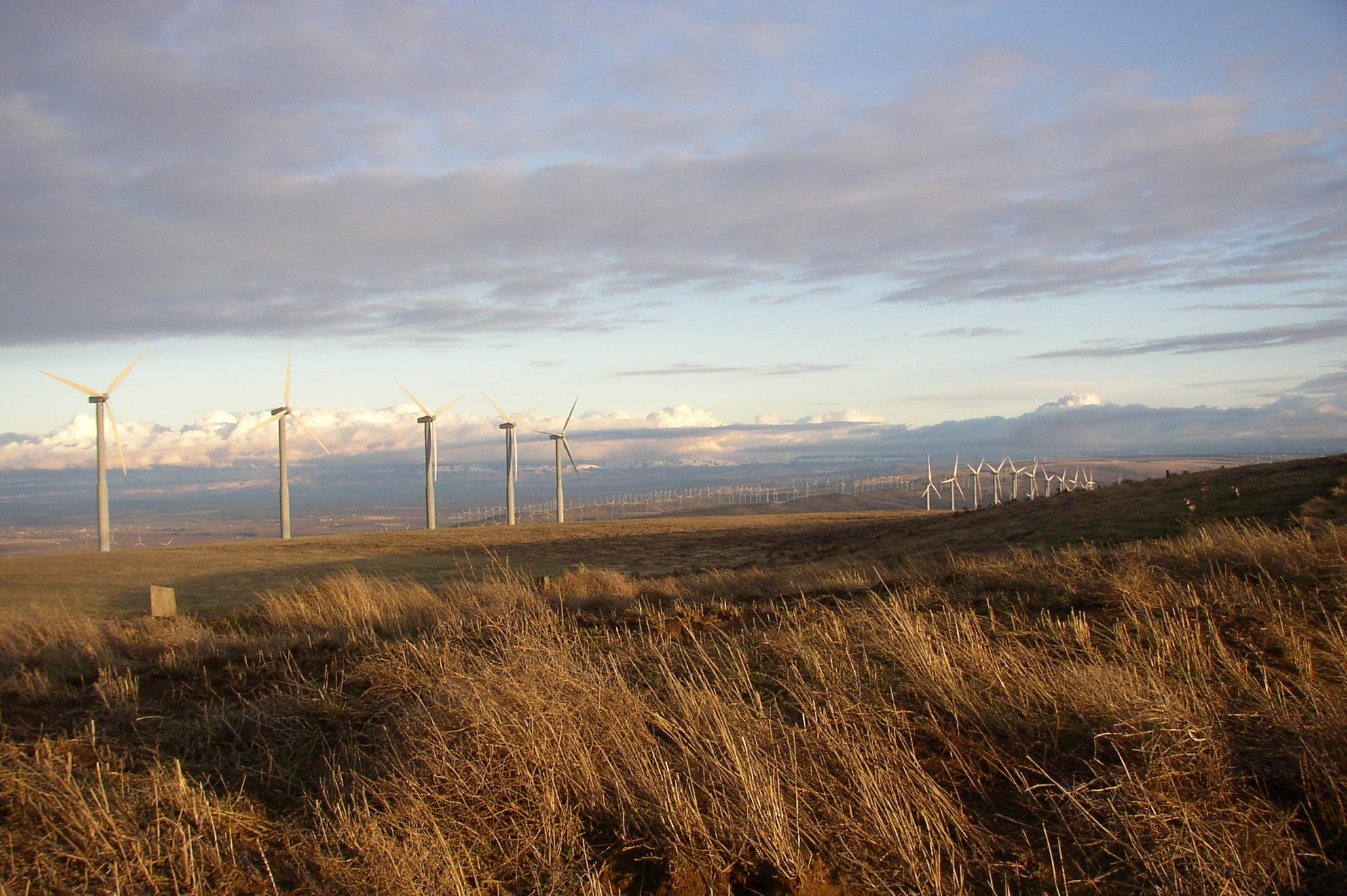 Wind Turbines above Walla Walla River in Washington. View is east toward the Blue Mountains beyond Wall Walla. (January 2006) Photographed by Umptanum.